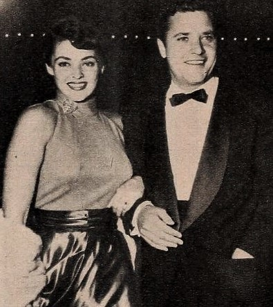 Suzan Ball with Dick Long, 1955